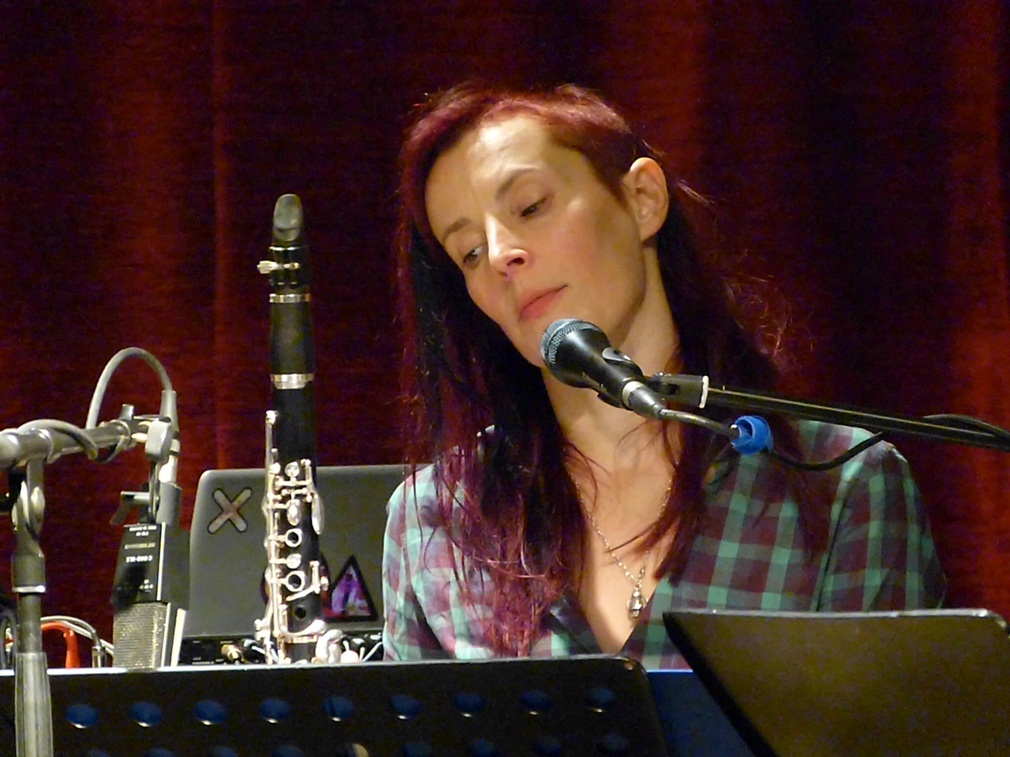 Isabelle Duthoit with the Ensemble Hübsch 8 at SWR New Jazz Meeting, Loft Cologne, Germany, November 24th, 2012